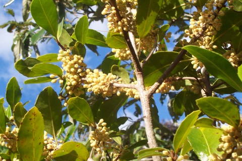 Myrsine variabilis at Norah Head, Australia